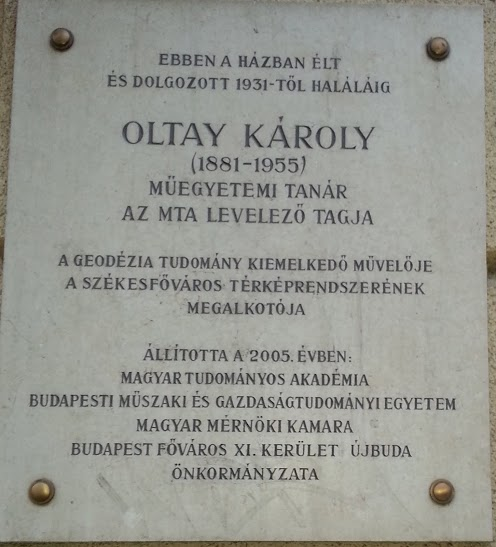 Károly Oltay commemorative plaque in Budapest District XI, Bartók Béla Street No 79.